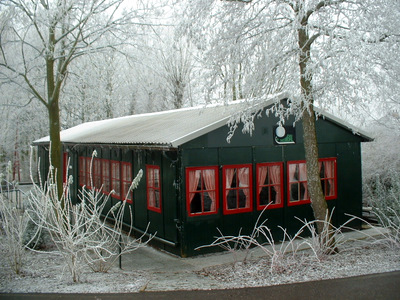 an image of the club house of the ijsclub bleiswijk